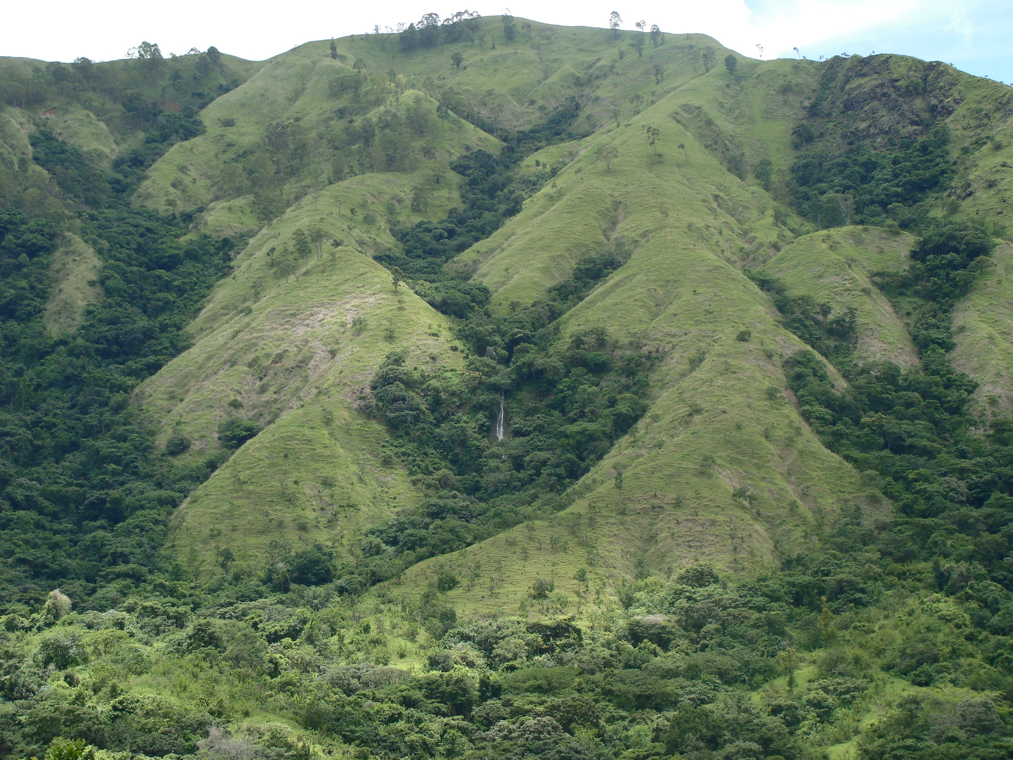 Small ravine and waterfall in serranía del Interior, Guárico state, Venezuela.